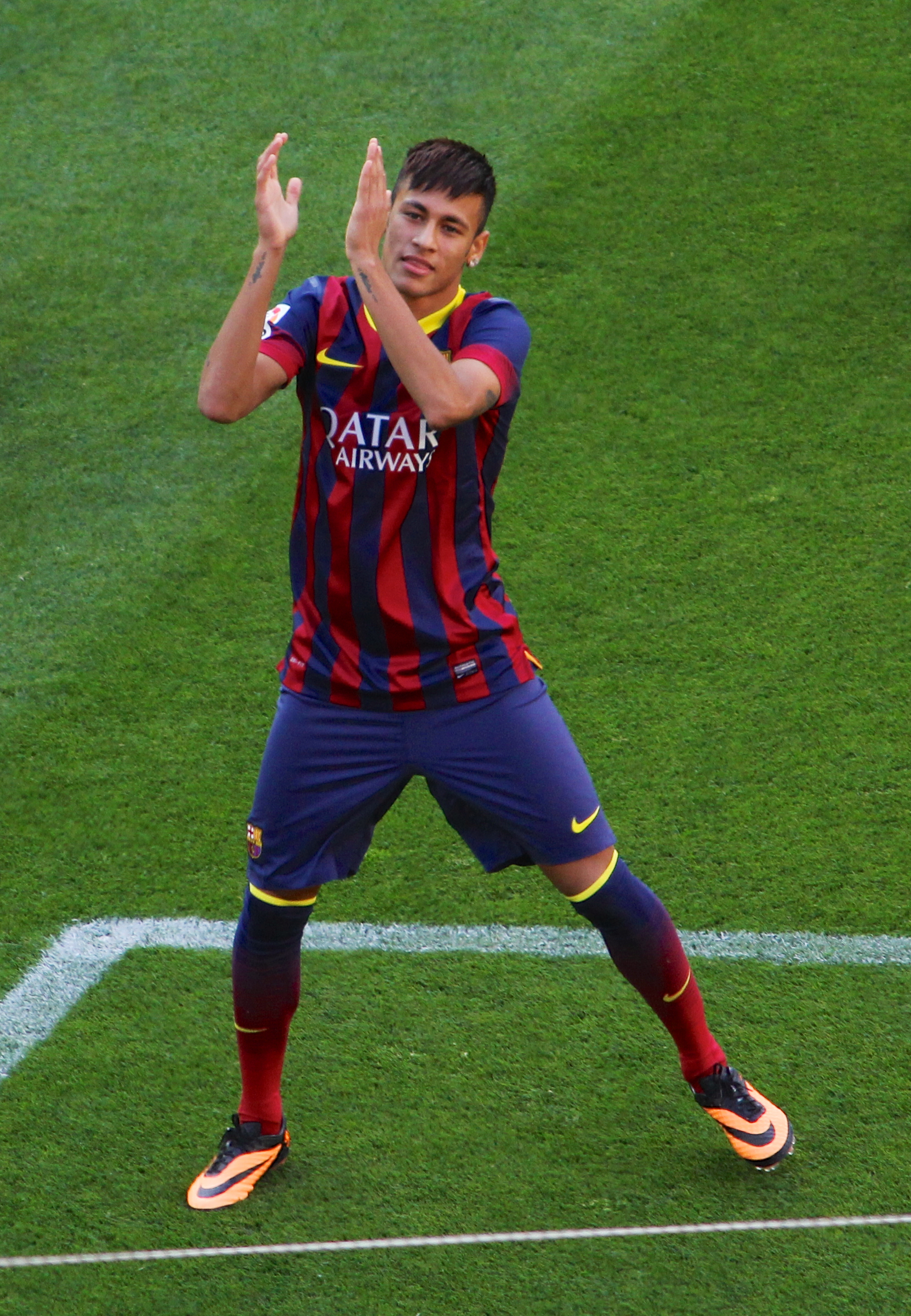 Brazil national team training for 1 day before the start of the first game of the 2014 World Cup qualifier against Croatia 2014-06-11